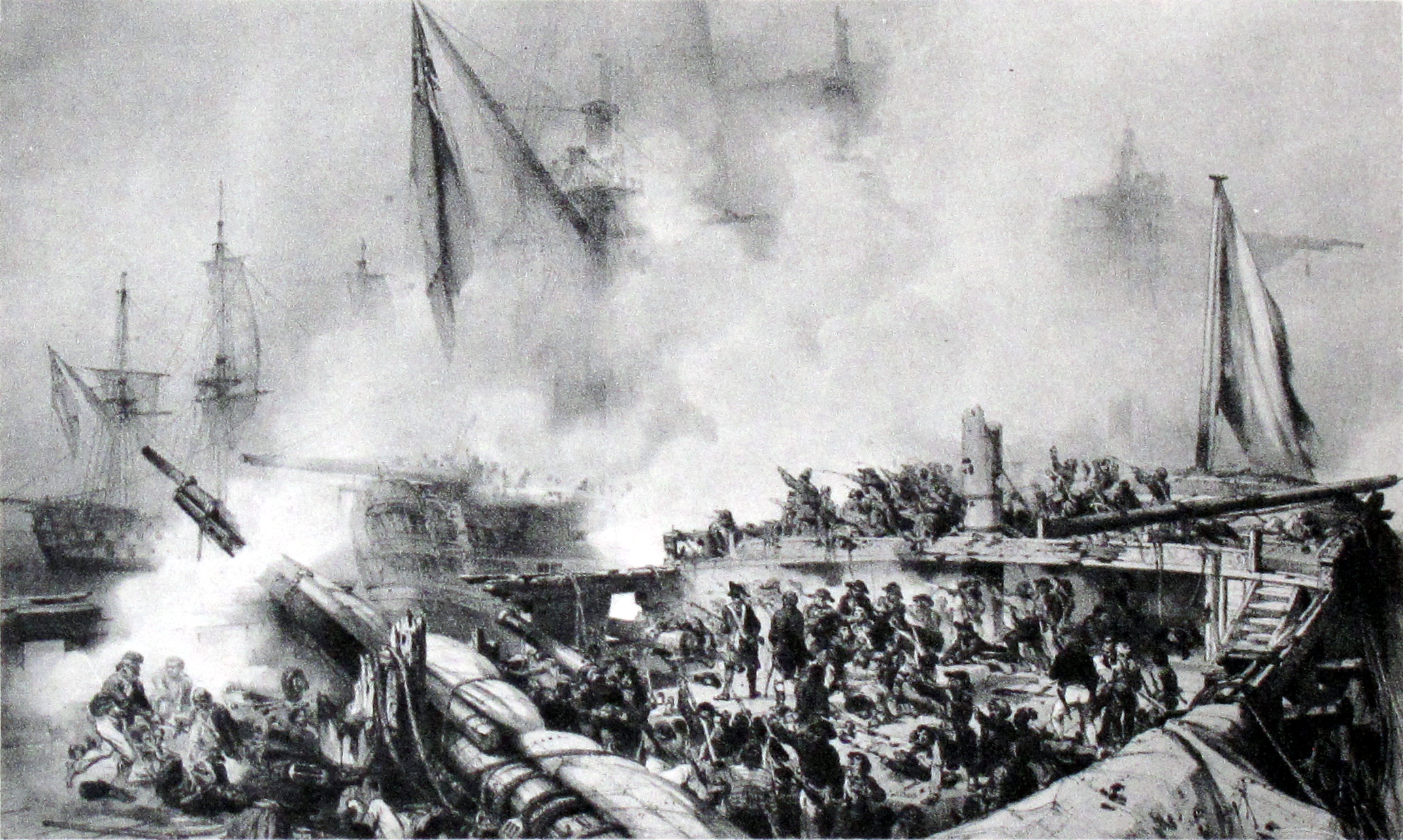 French ship Tonnant at Abukir